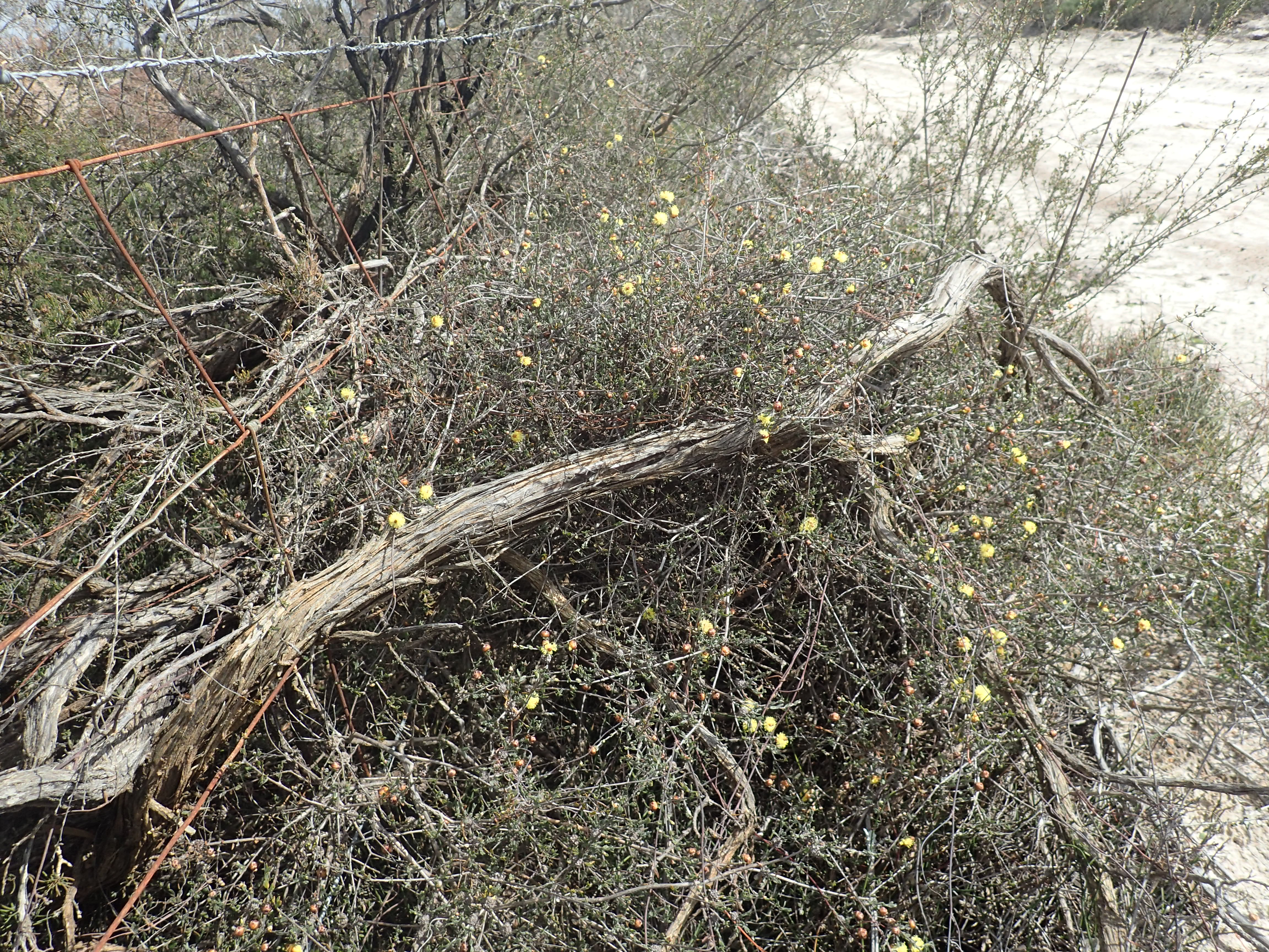 Conothamnus aureus growing about 1km along Speddingup East Road